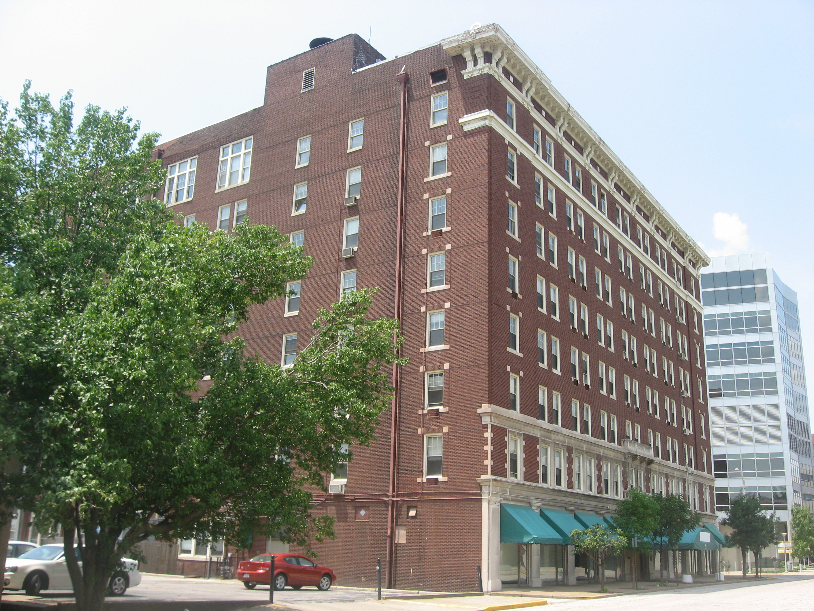 Front and southeastern side of the McCurdy Hotel, located at 101-111 SE. First Street in Evansville, Indiana, United States. Built in 1916, it is listed on the National Register of Historic Places.